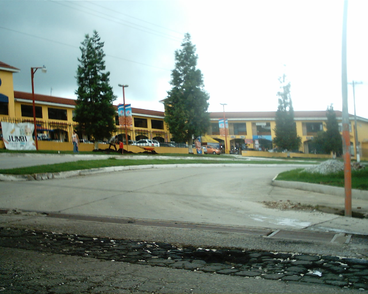 "Los Pinabetes" mall, San José Pinula, Guatemala